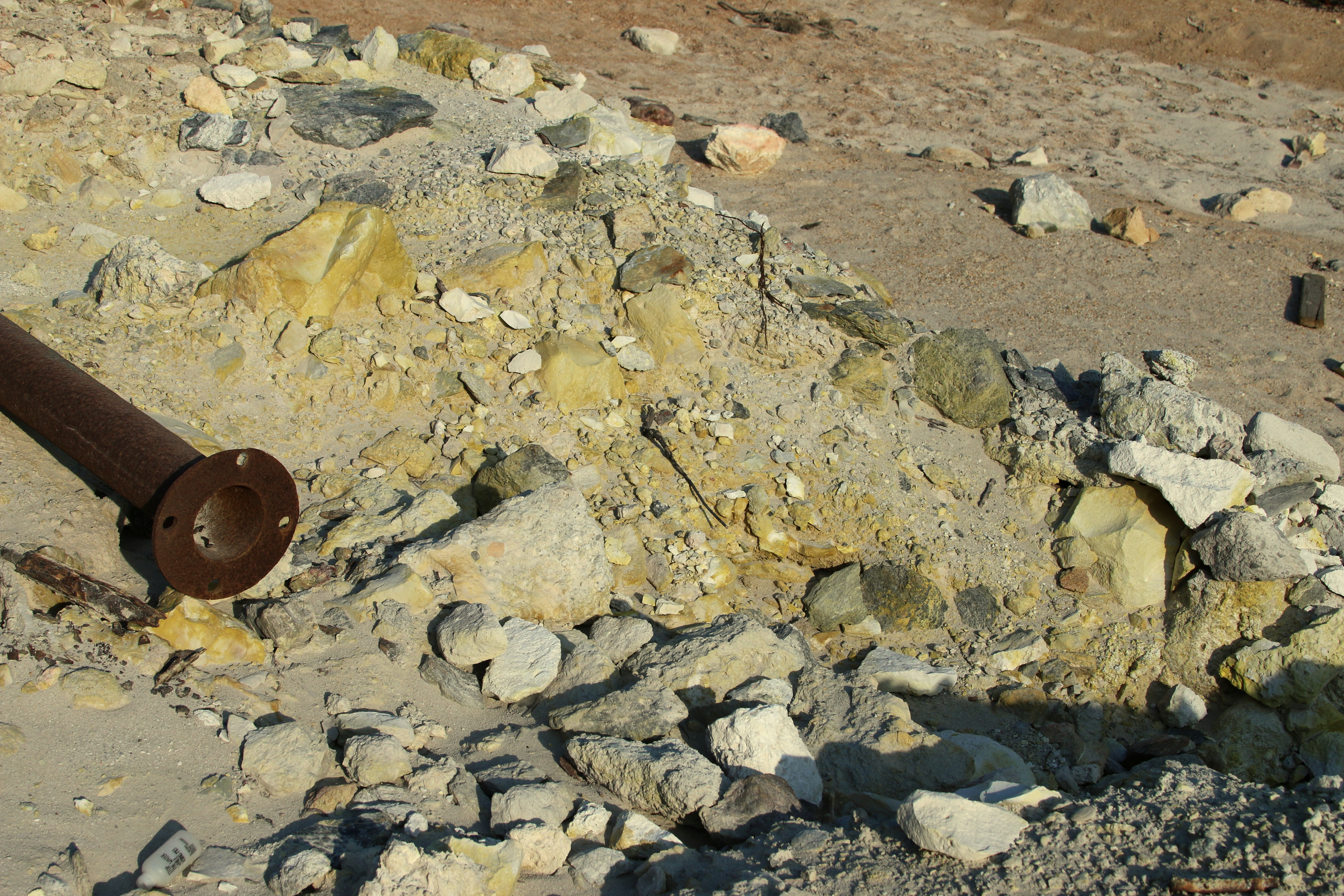 Abandoned sulfur mines on Milos, sulfur residues.